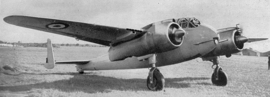 Breguet 690 photo from L'Aerophile July 1939